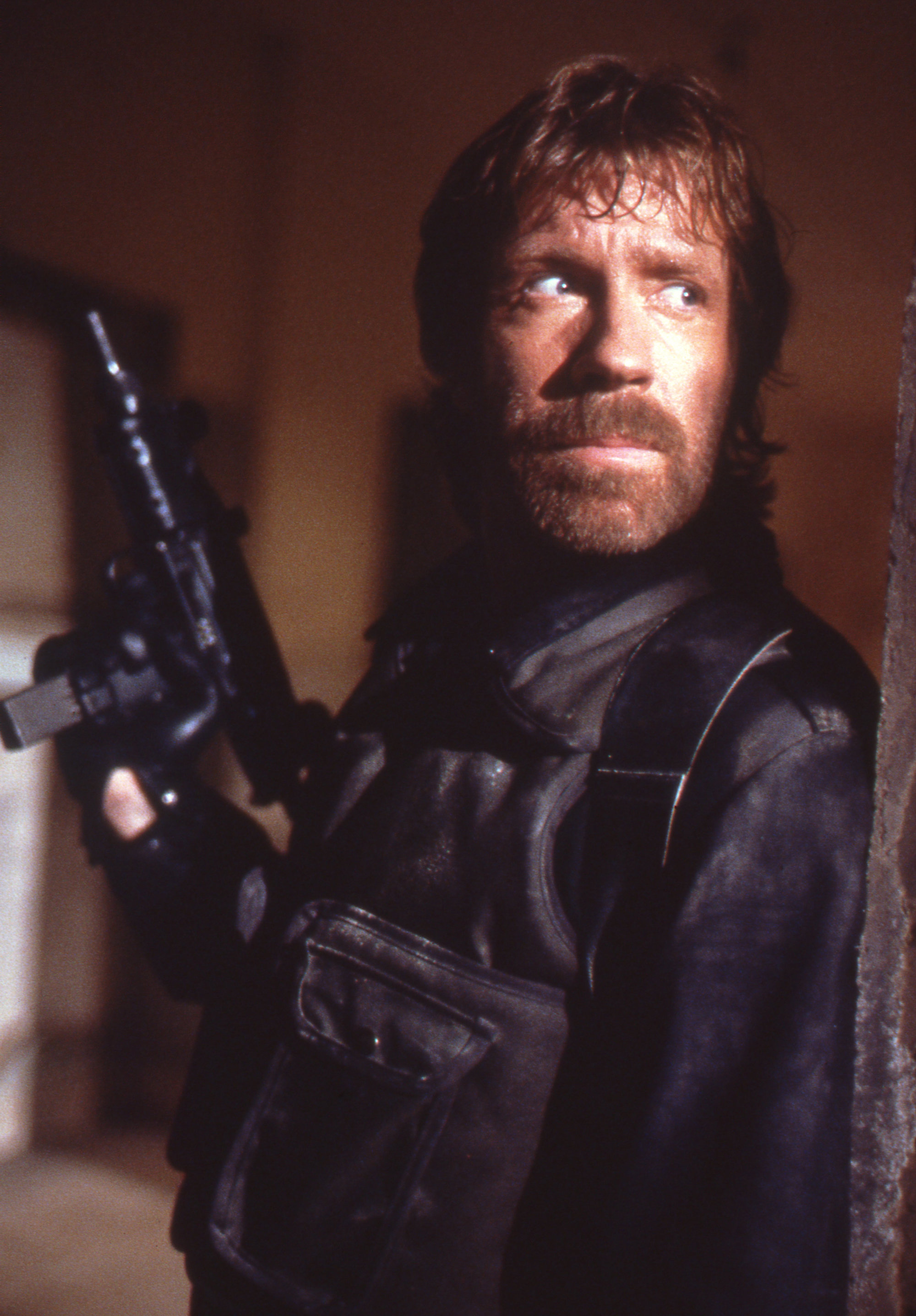 Chuck Norris on the set of "The Delta Force" (1986)